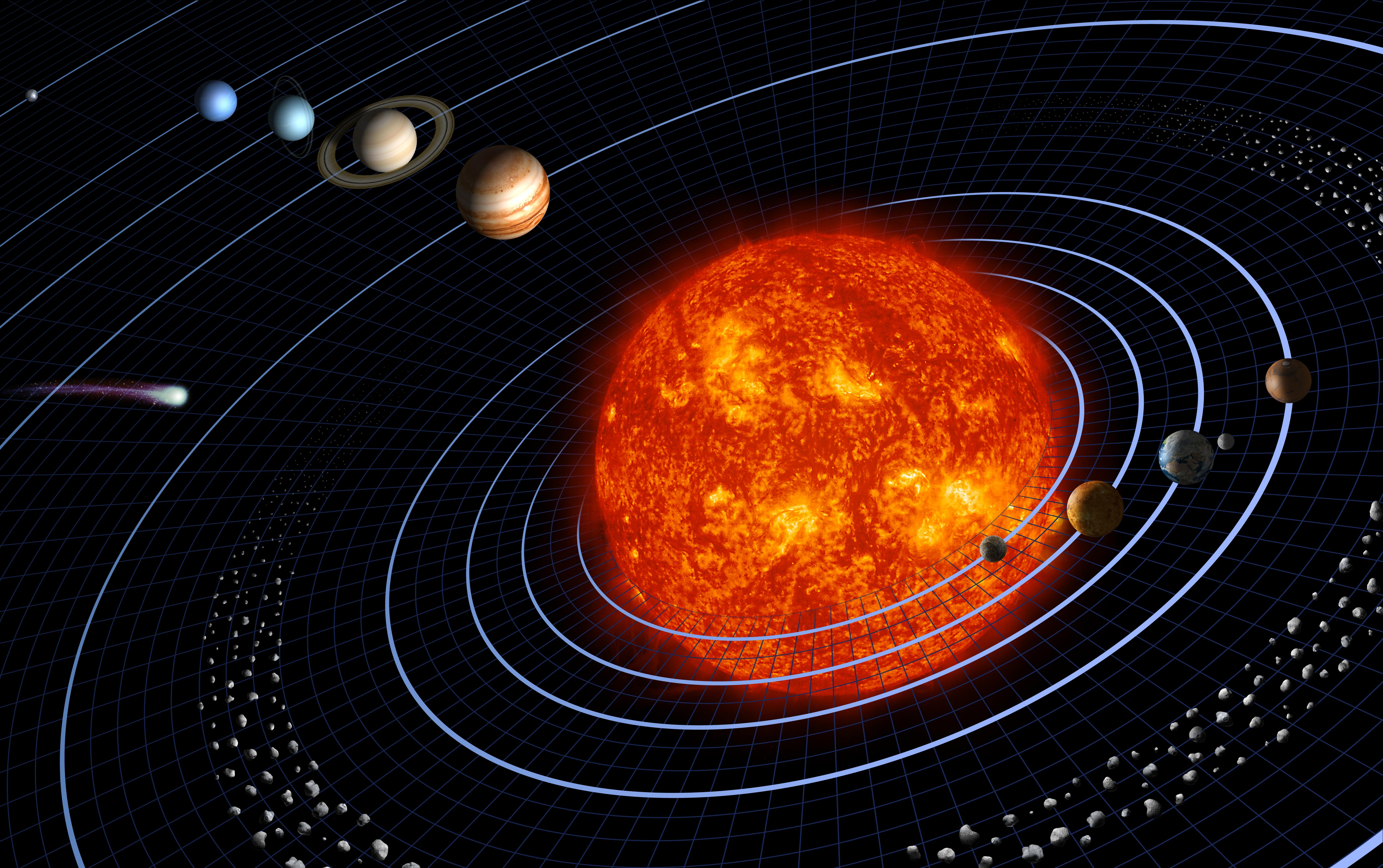 Solar system Painting